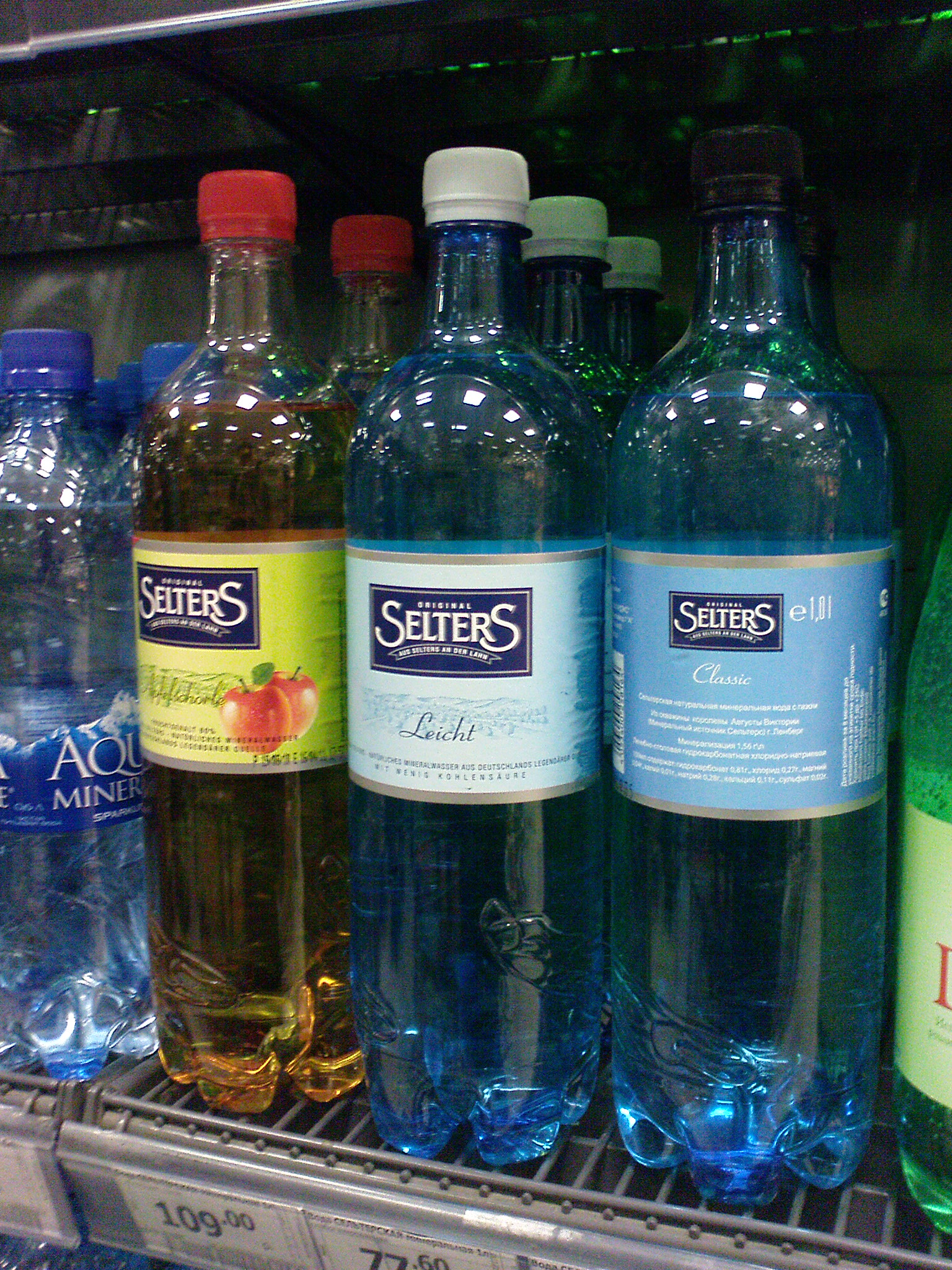 Photo of Selter's waters in a moll